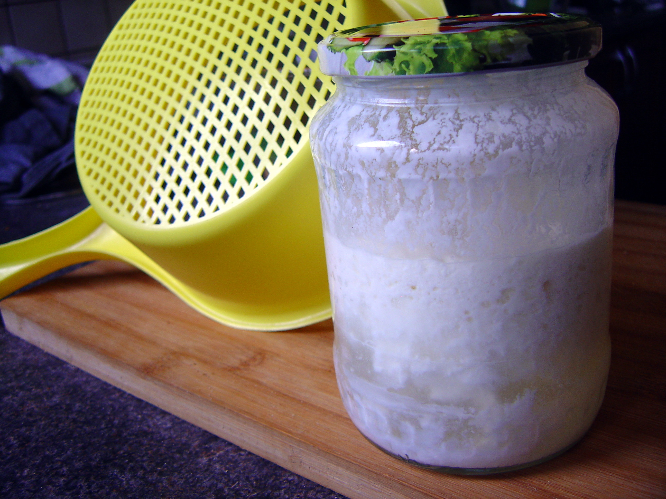 Home made kefir in a jar, with plastic strainer used to separate kefir grains. Аҧсшәа: Zrazený domáci kefír v pohári. V pozadí je umelohmotné sitko používané na oddelenie kefírového jadra.